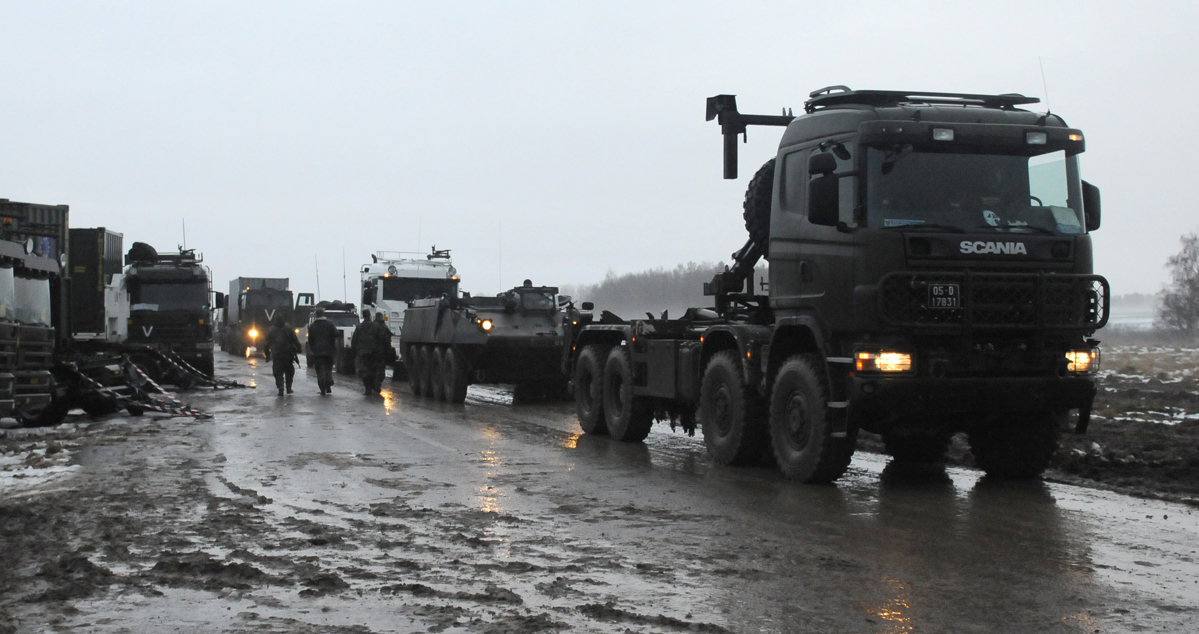 Nordic Battle Group